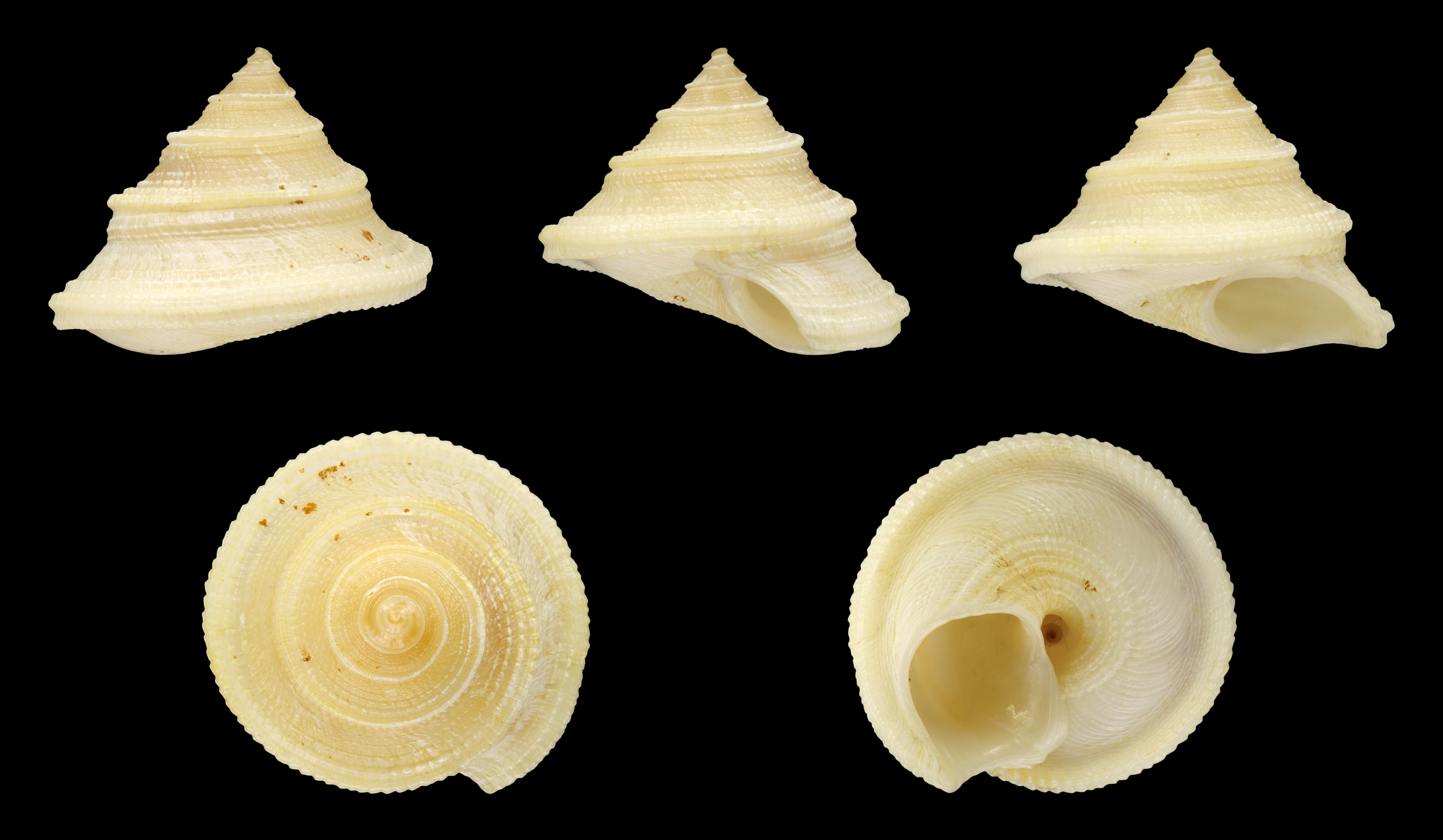 Height 1.5 cm; Originating from the Lake Tanganyika near Kigoma, Tanzania; Shell of own collection, therefore not geocoded.